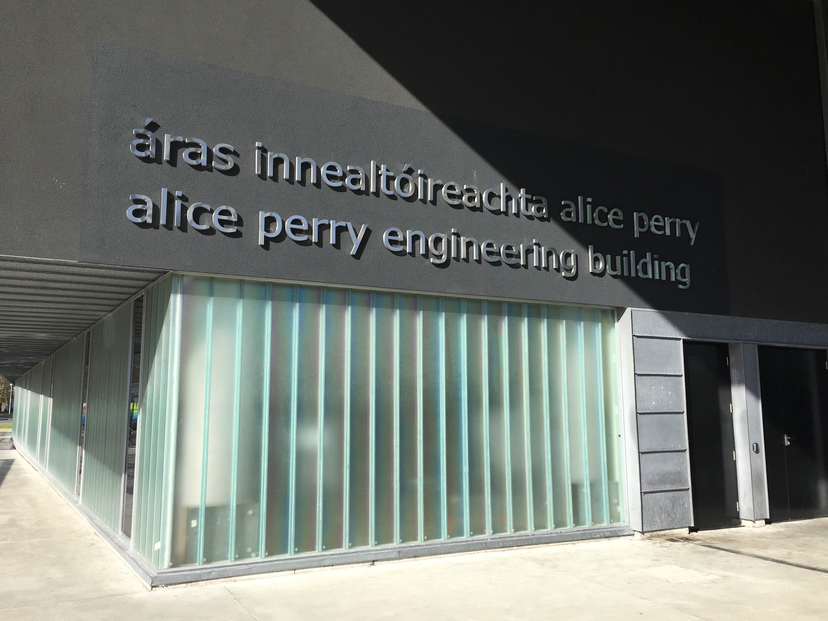 The Engineering building at NUIG was named the Alice Perry building on 6th March 2017